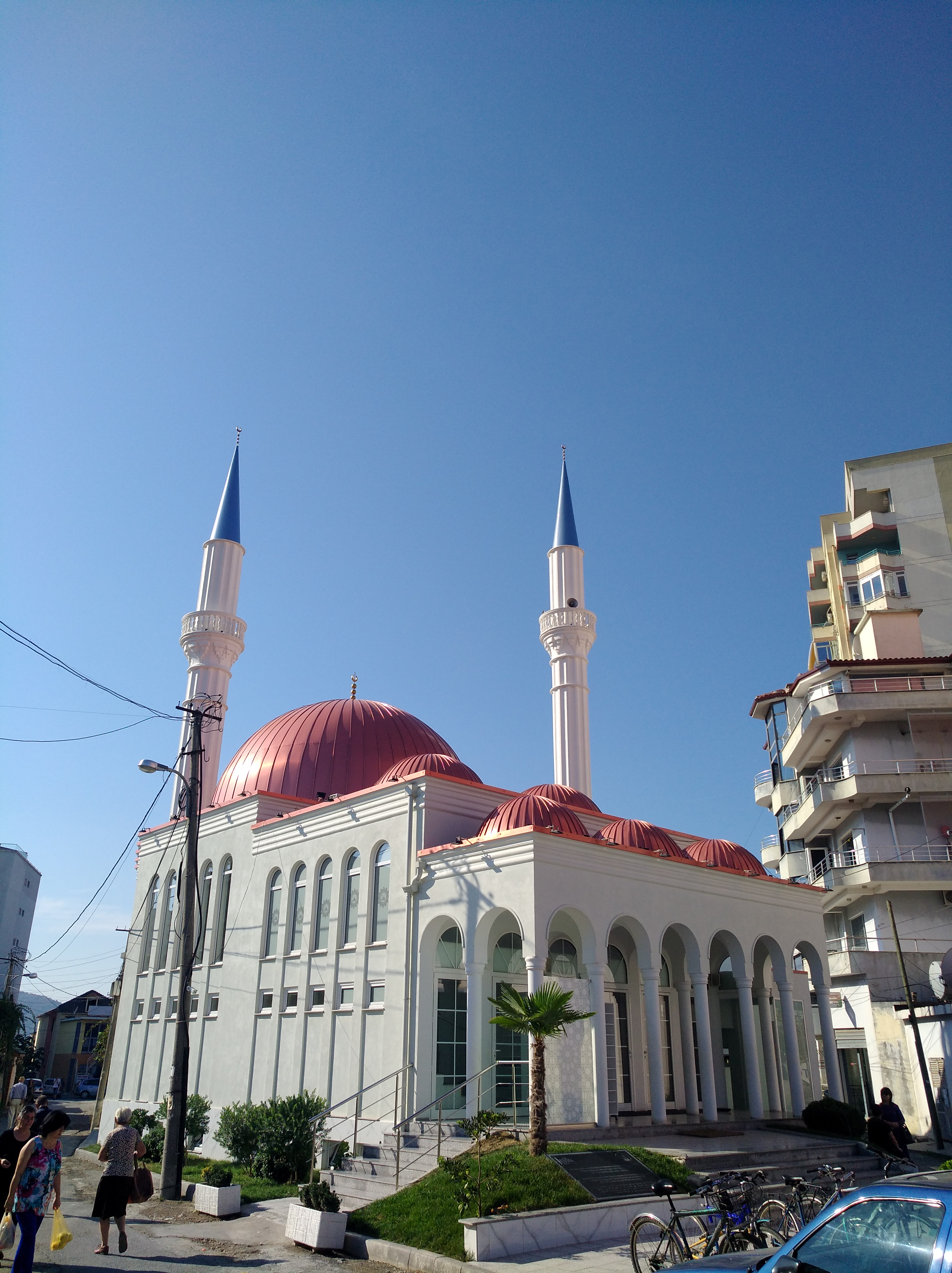 Masjid Hafiz Patel Mosque, Elbasan, Albania.